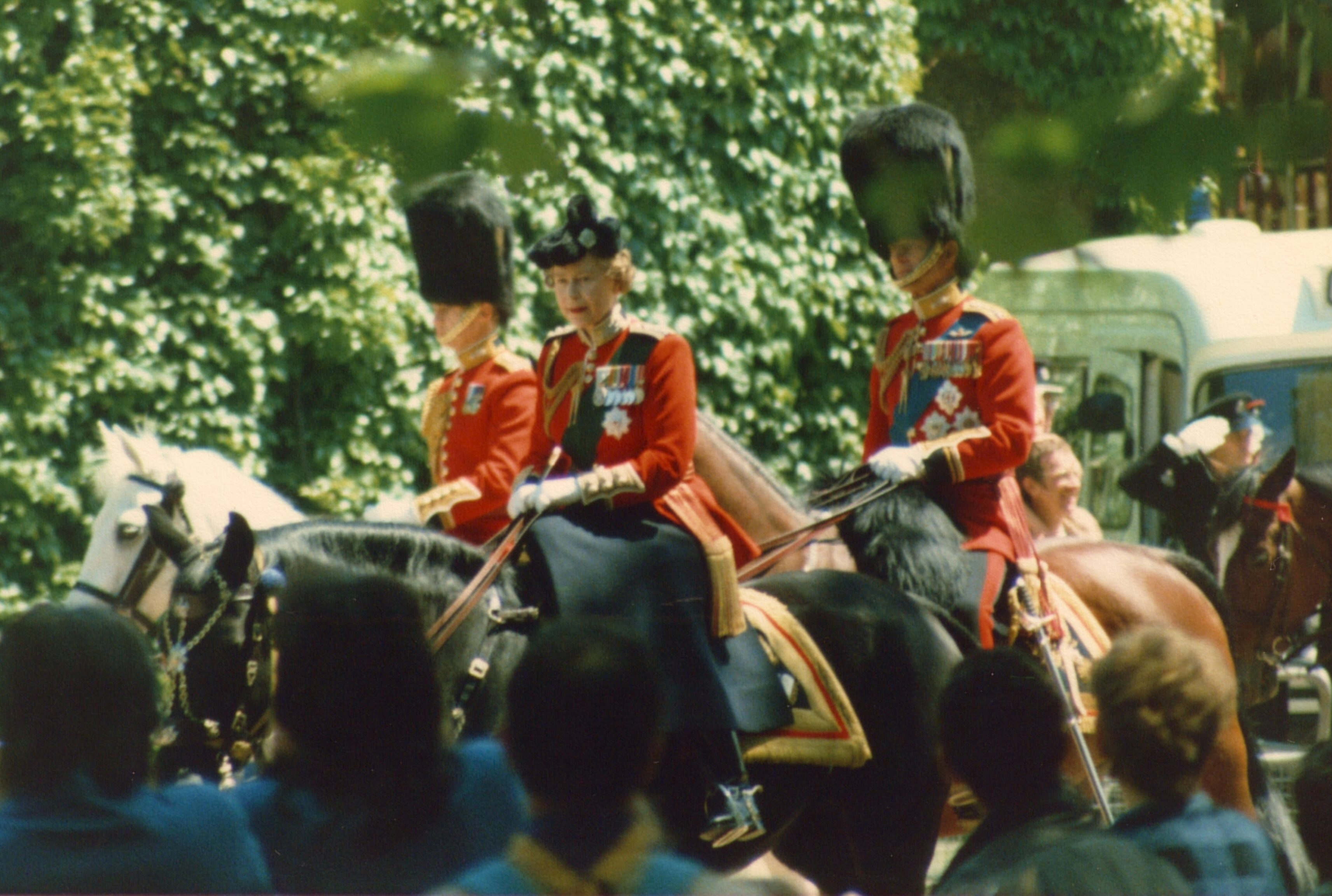 Photograph of Queen Elizabeth II riding to trooping the colour for the last time in July 1986. The queen rode the same horse, 'Burmese', originally presented by Canadian government, from 1969 to 1986. With Charles, Prince of Wales, on the white horse to the left, and Philip, Duke of Edinburgh on the bay horse behind the Queen.